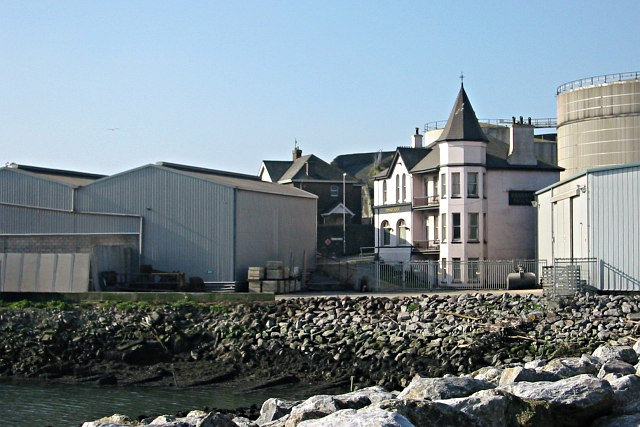 Cattedown